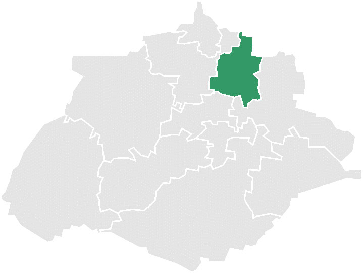 Map of the Municipalty of Tepezalá in the State of Aguascalientes, México.